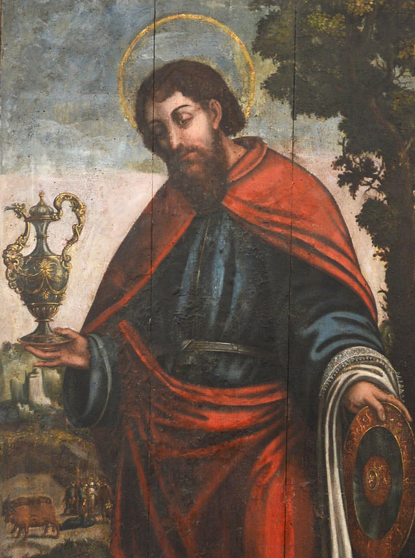 Saint Mantius (c. 1550-60), attributed to Sebastião Lopes. Currently in the Évora Cathedral Museum of Sacred Art.